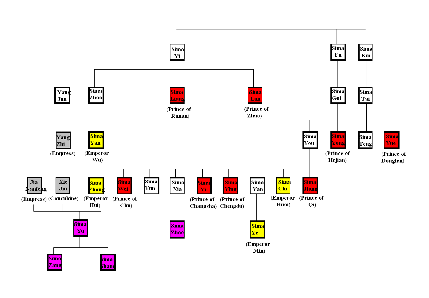 Genealogical tree to be used by 'War of the Eight Princes' (291-305)